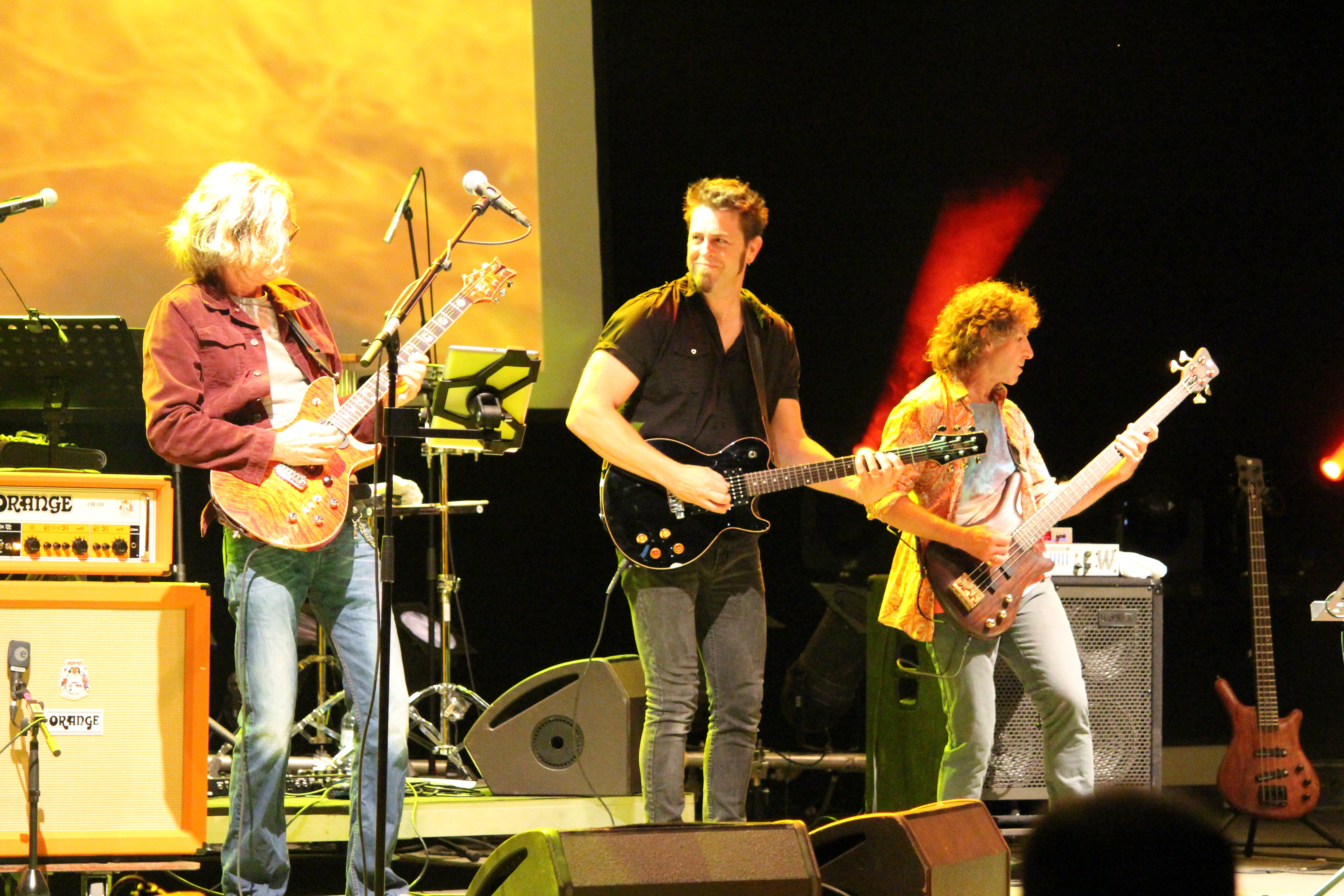 Transatlantic au Night of the Prog Festival, 18 juillet 2014